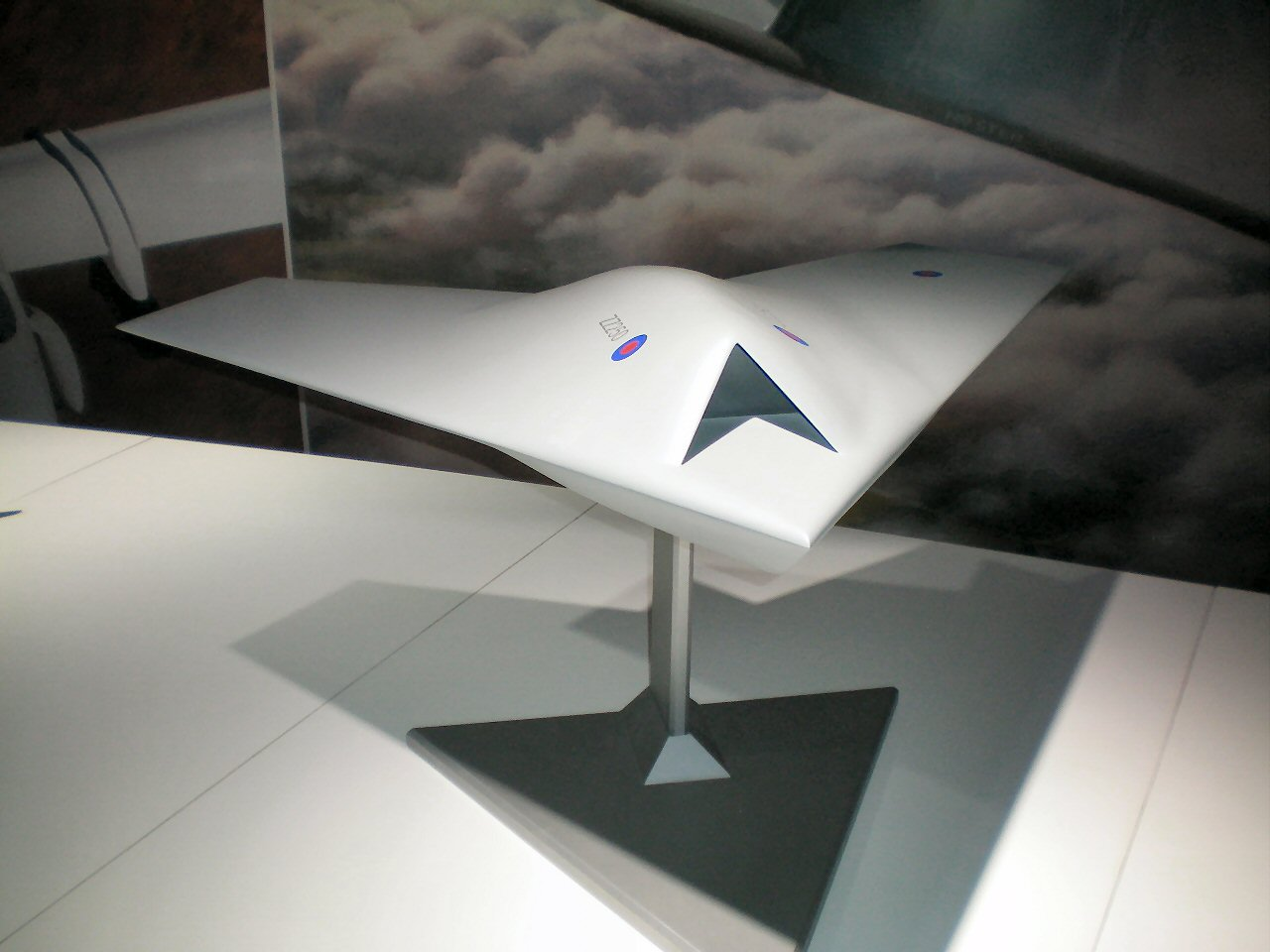 Model of BAE Taranis UAV on display at Farnborough Airshow 2008